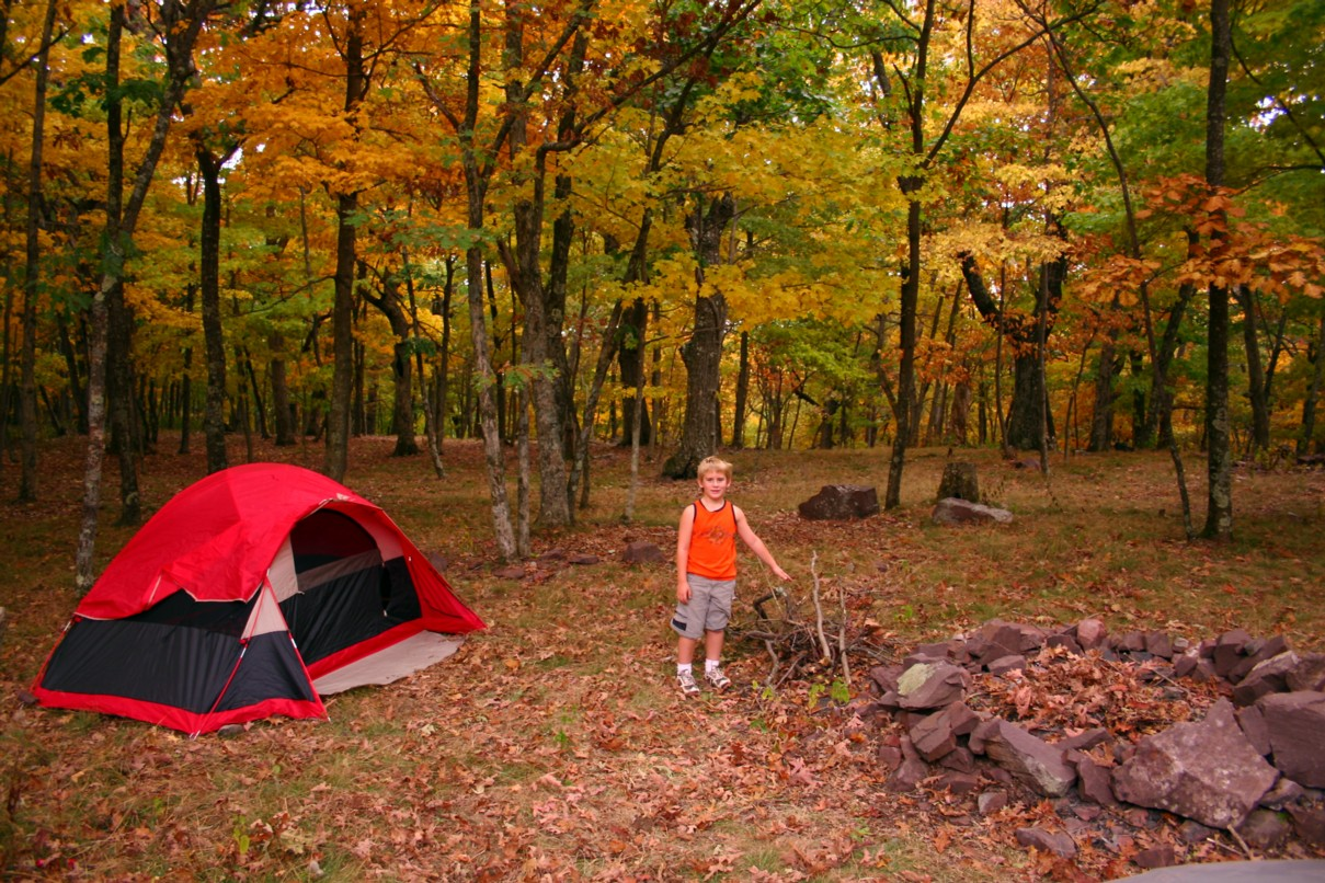 Camp